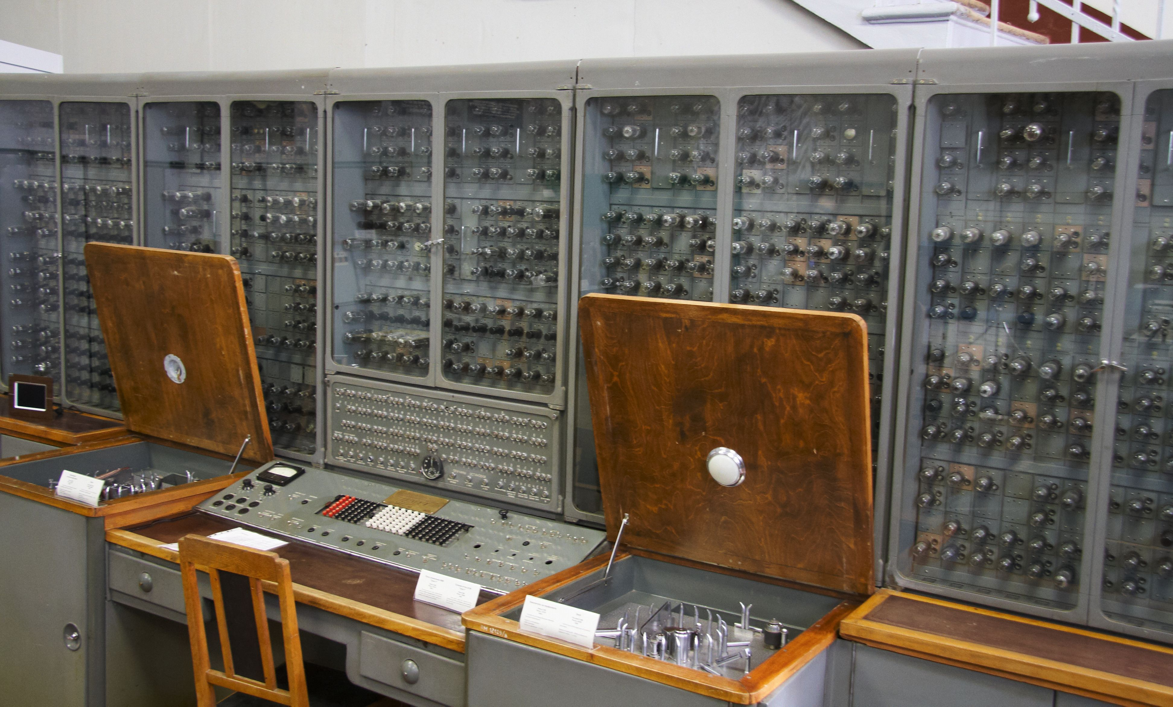 Ural-1 from the right side